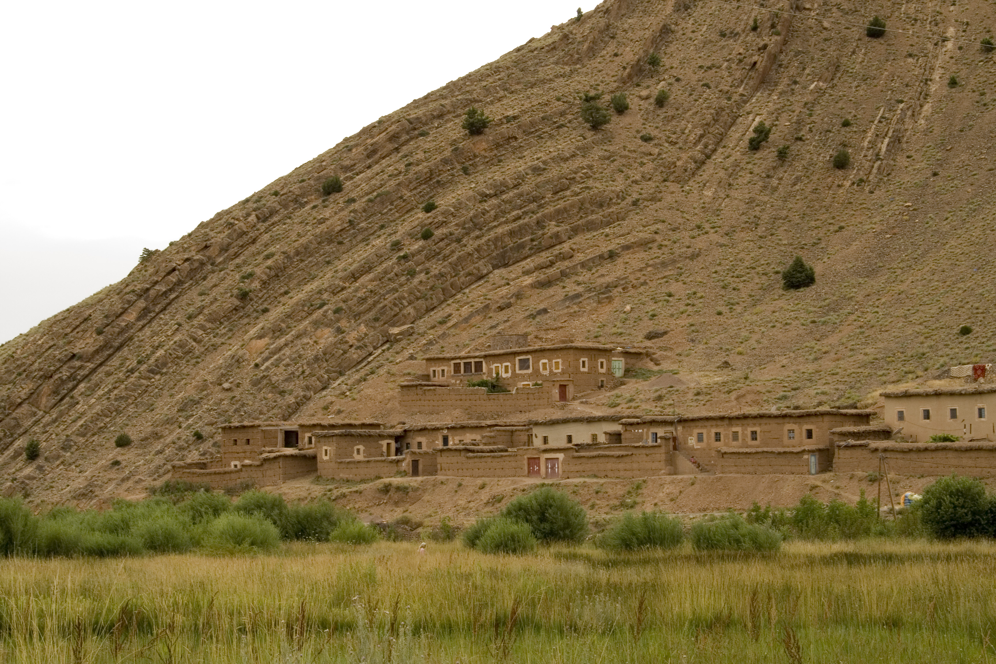 A small village in the Aït Bouguemez valley, Atlas mountains, central Morocco